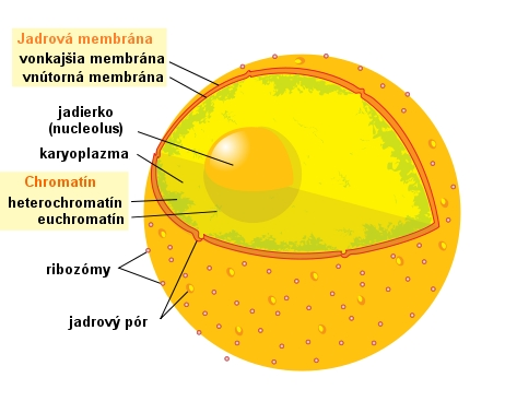 A comprensive diagram of a human cell nucleous.